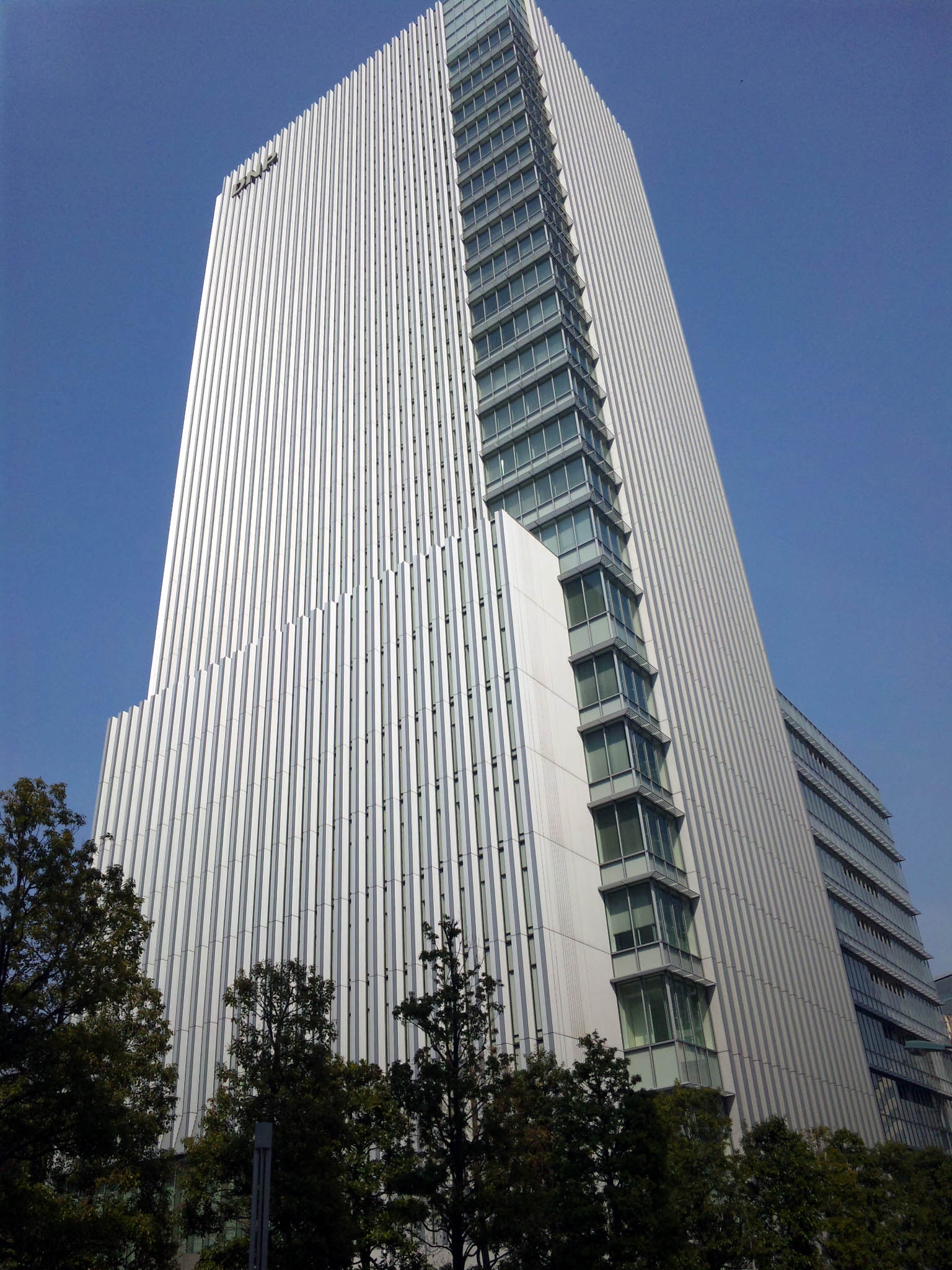 DNP GOTANDA